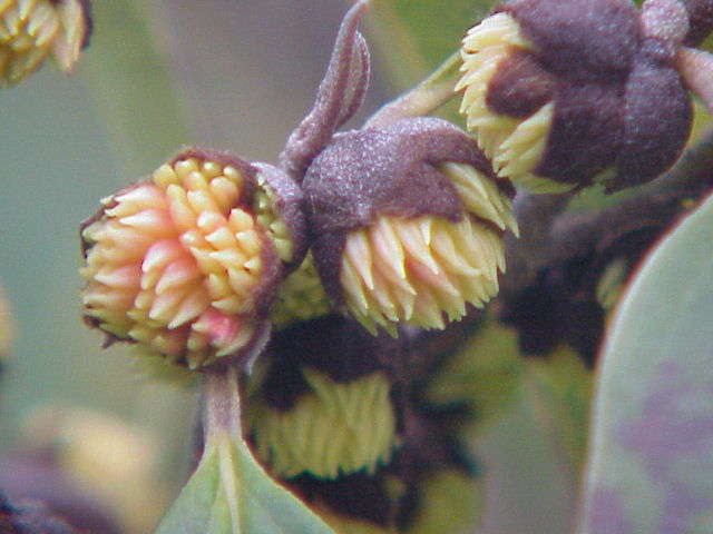 Species: Sycopsis sinensis Family: Hamamelidaceae Image No. 1